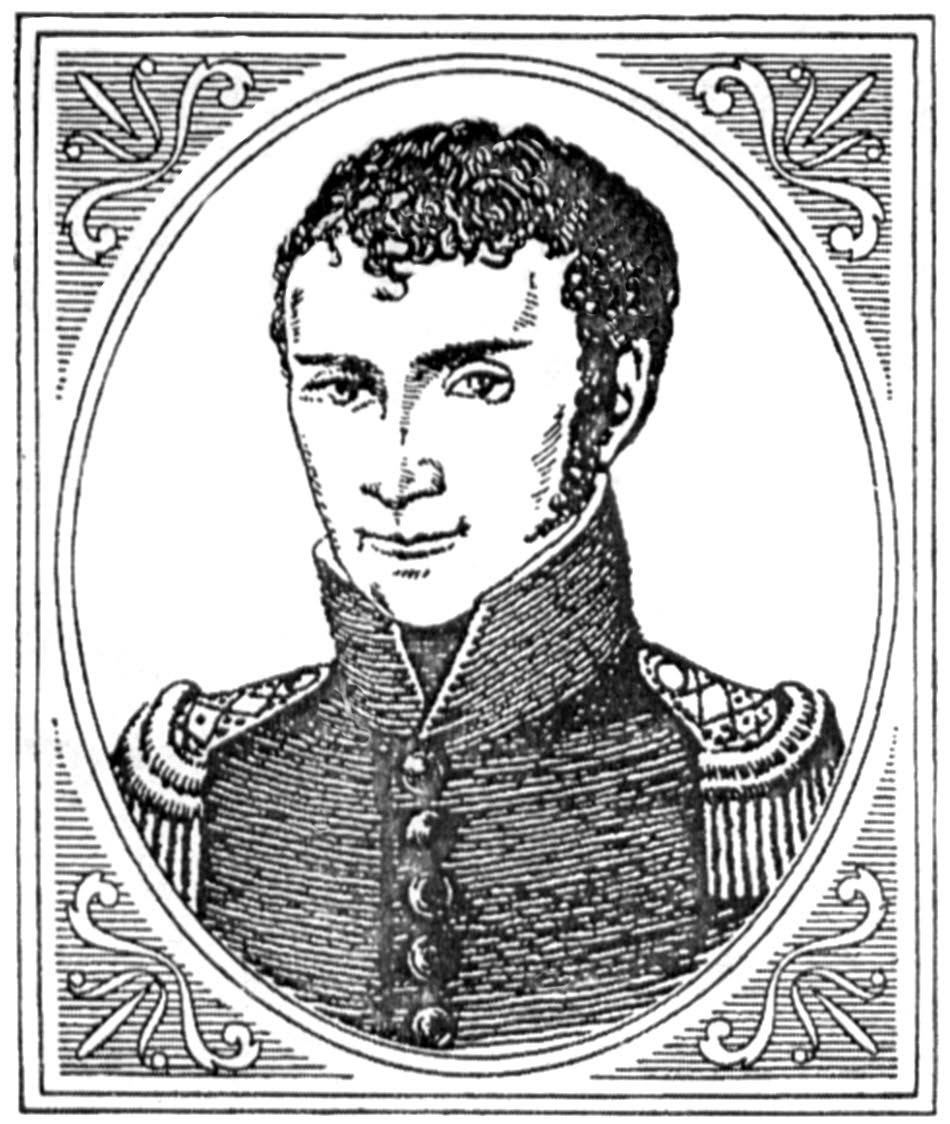 Johann Wilhelm Ritter (16 December 1776 – 23 January 1810) was a German chemist, physicist and philosopher. He is shown here in the Bavarian Academy of Sciences uniform.